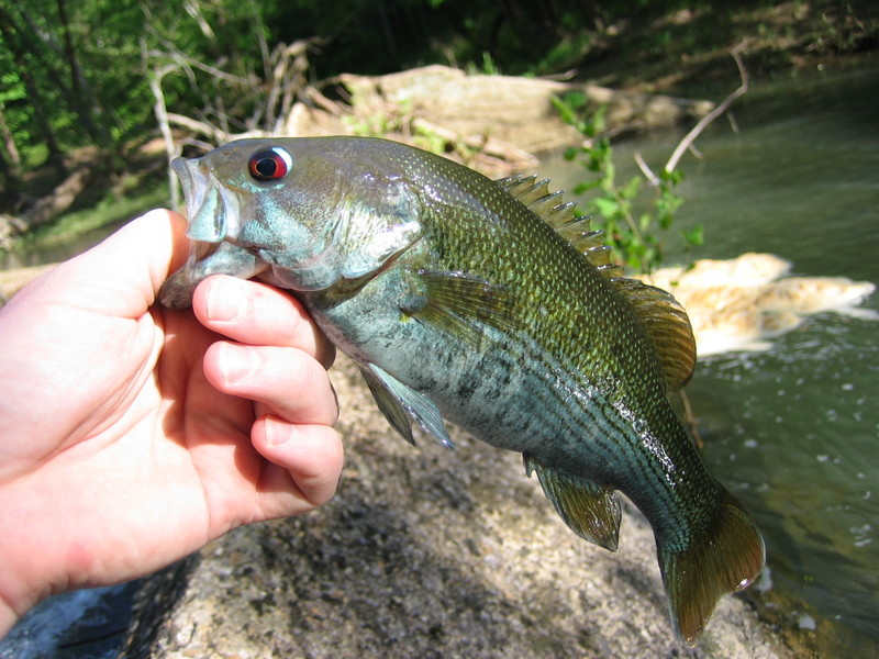 Typical Redeye Bass From Coosa River, N. Georgia